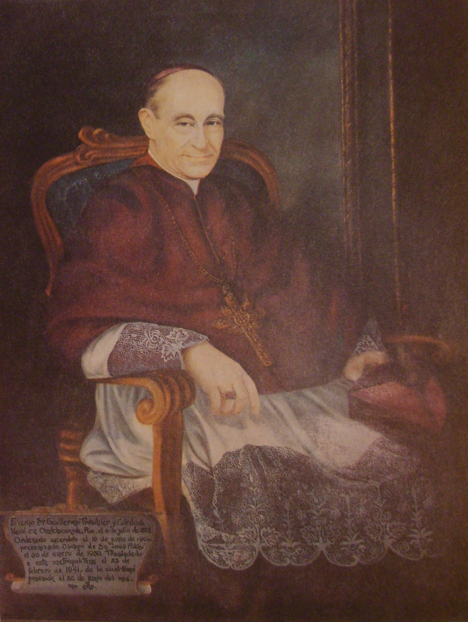 Monsignor Guillermo Tritschler y Córdova, sixth archbishop of San Luis Potosí and seventh archbishop of Monterrey, canonization in process